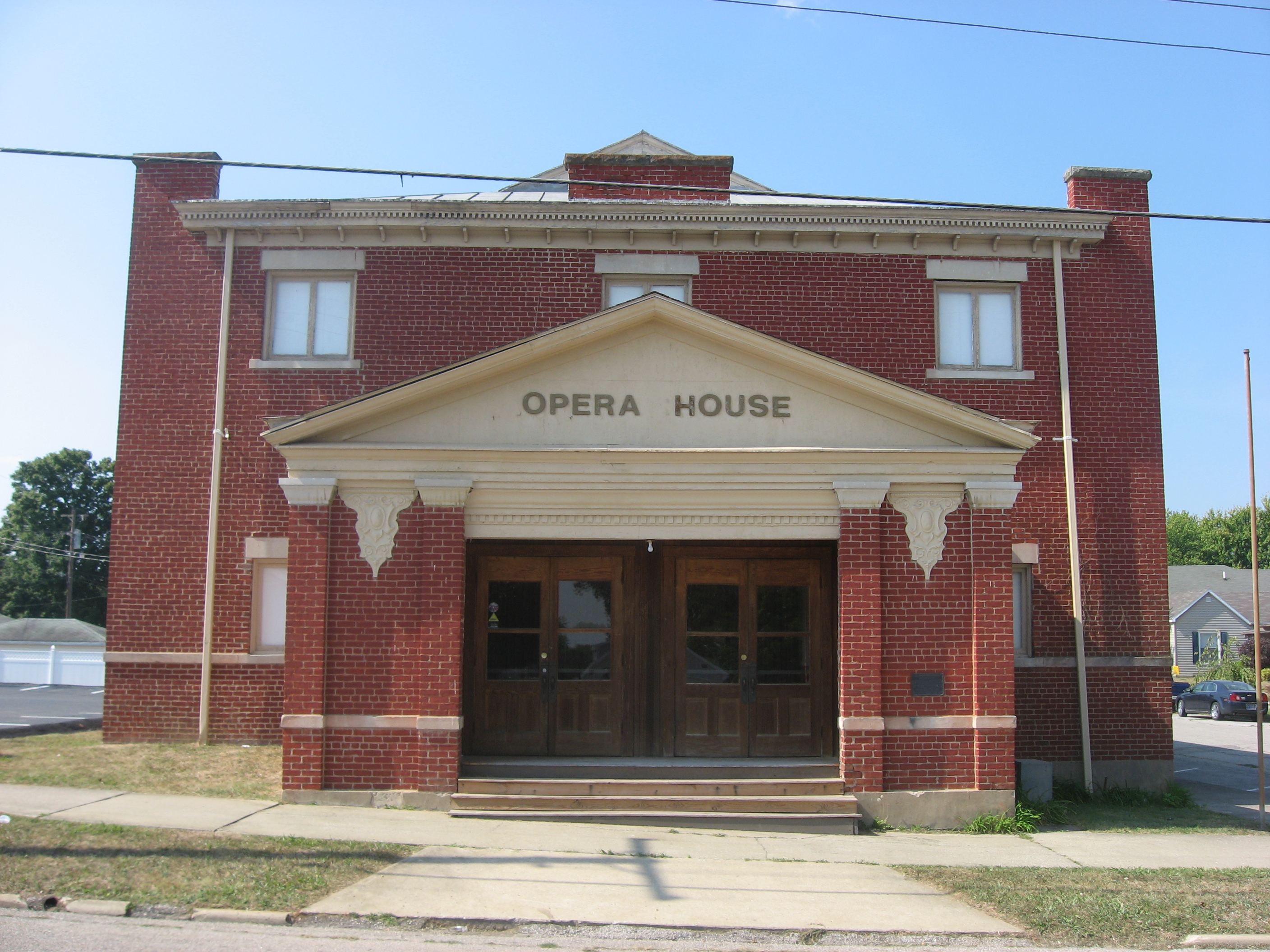 Front of the Mitchell Opera House, located at the intersection of Seventh and Brooks Streets in Mitchell, Indiana, United States. Built in 1906 and formerly used as the city hall, it is listed on the National Register of Historic Places, and it is part of the Register-listed Mitchell Downtown Historic District.